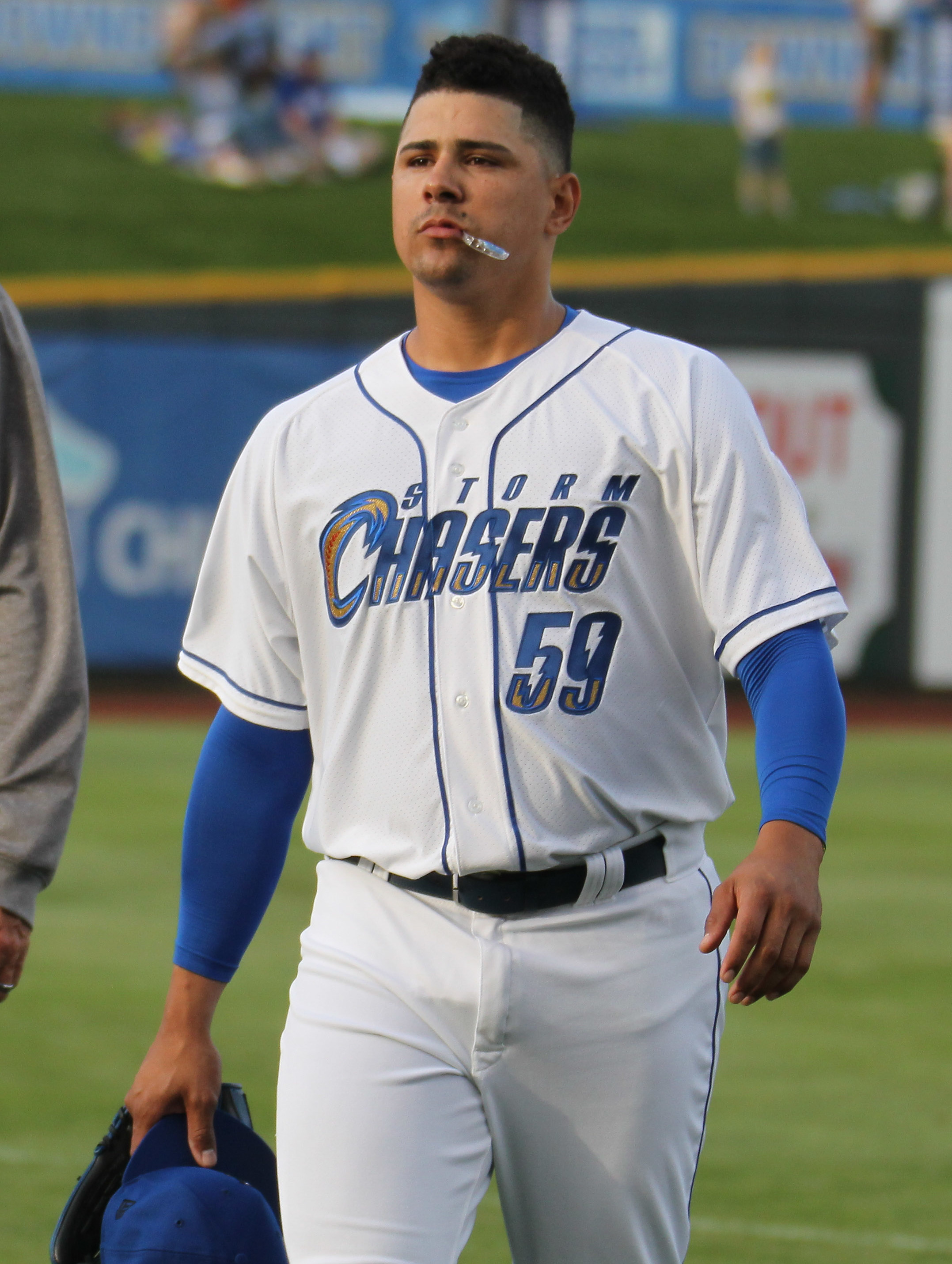 Andres Machado at Werner Park in Omaha with the Omaha Storm Chasers in 2018